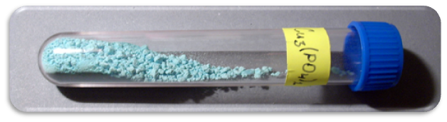 Copper(II) phosphate - Cu3(PO4)2